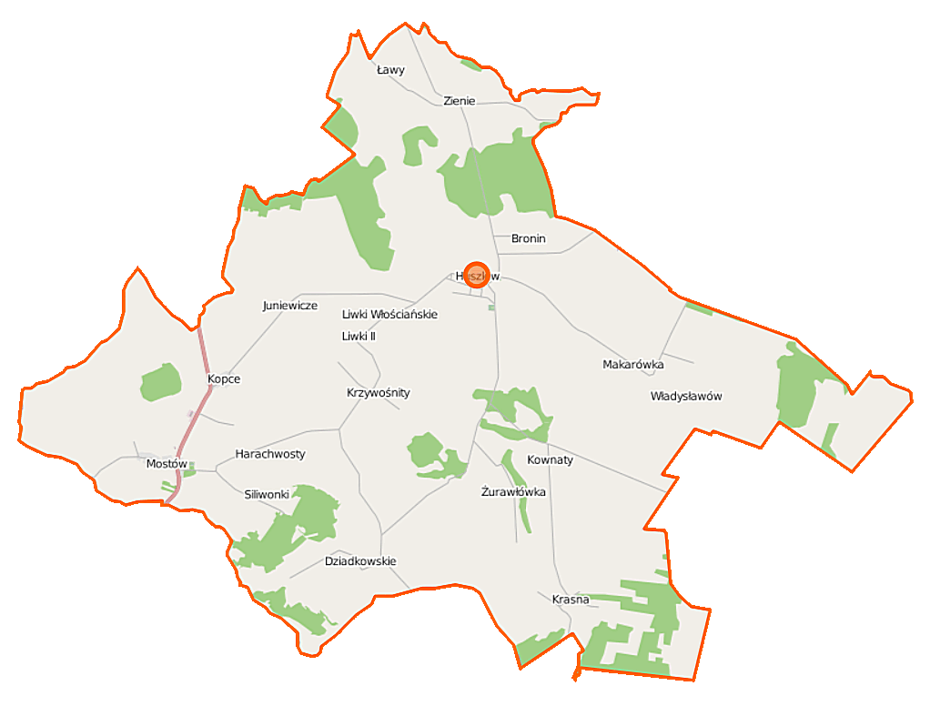 Map of Gmina Huszlew, Poland This map of Huszlew (gmina) was created from OpenStreetMap project data, collected by the community. This map may be incomplete, and may contain errors. Don't rely solely on it for navigation. Border coordinates52.189922.6929←↕→22.973452.0590